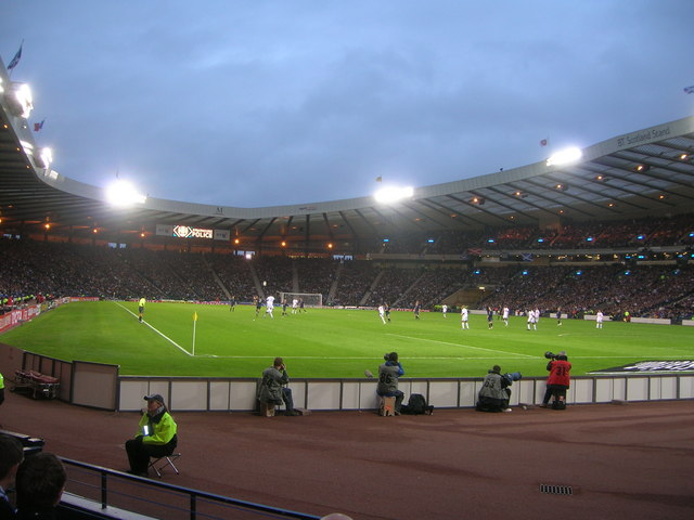 Hampden Park Scotland V France, taken during Scotland's famous 1-0 win over France.